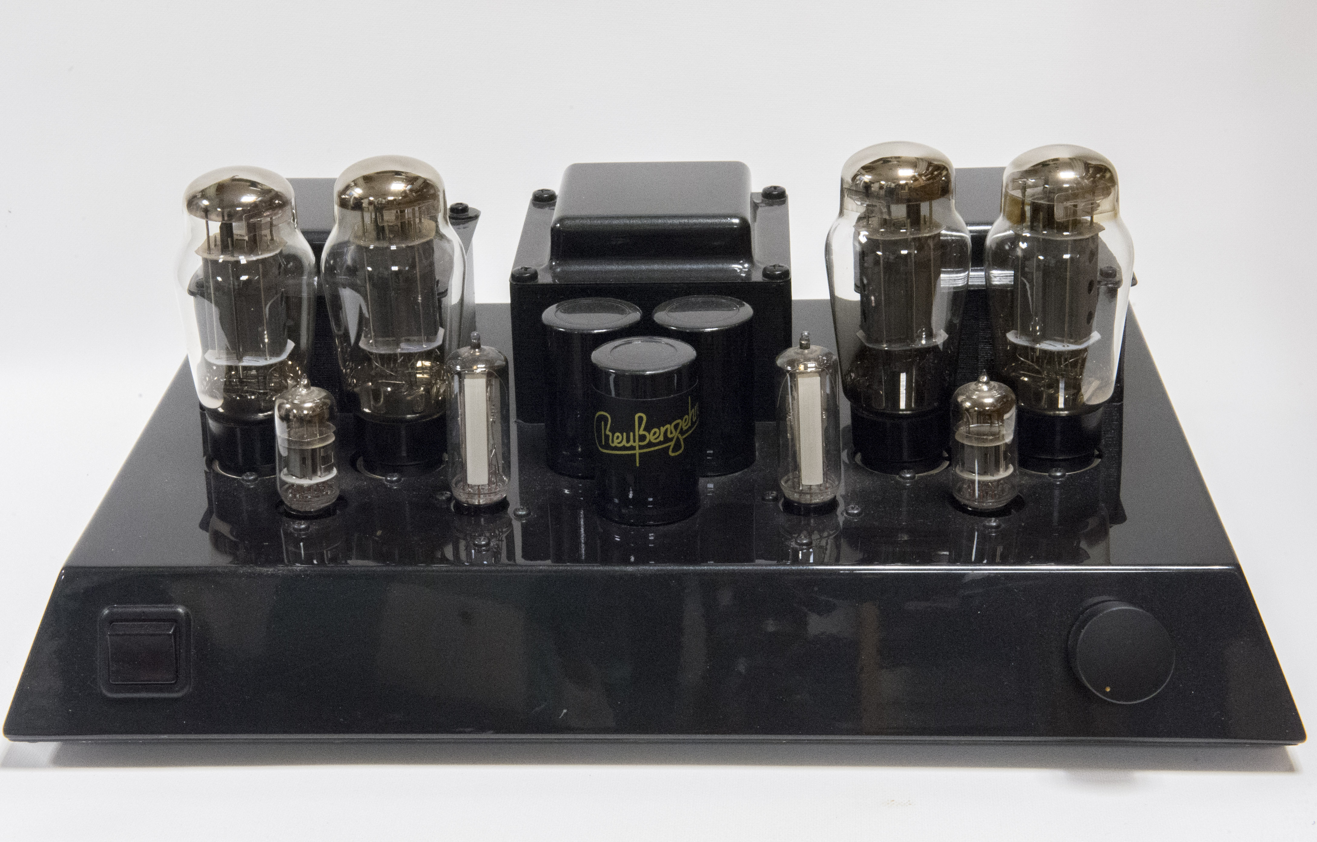 Tube ampflifier Tube 66 - manufactured by Reußenzehn in the 1990th